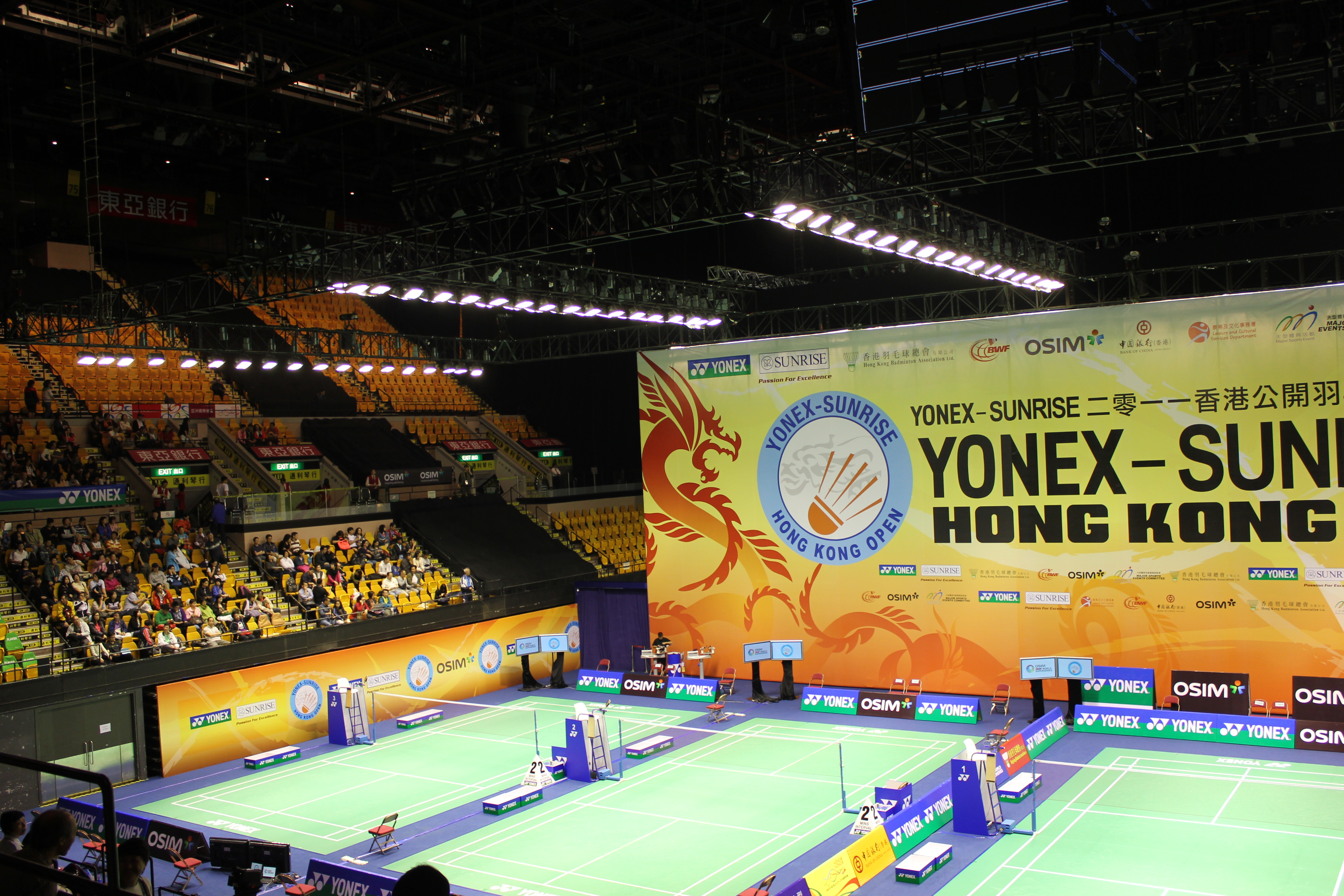 Hong Kong Open Badminton Championships 2011 - The courts and seats in Hong Kong Coliseum